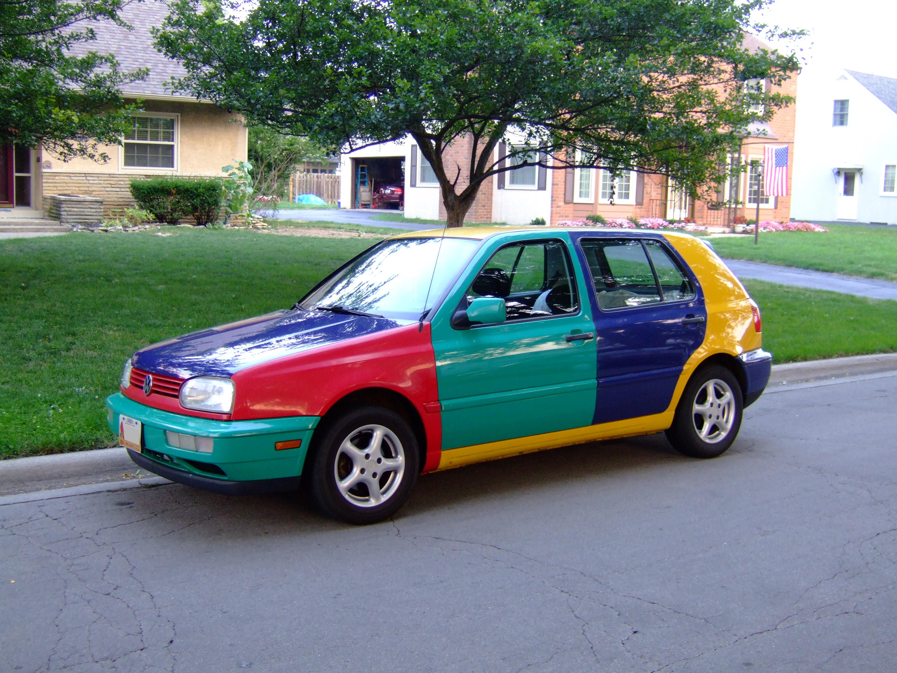 A Mark 3 Volkswagen Golf Harlequin edition found in Upper Arlington, Ohio, USA. This is car #167 of 275 produced. Self made photo.